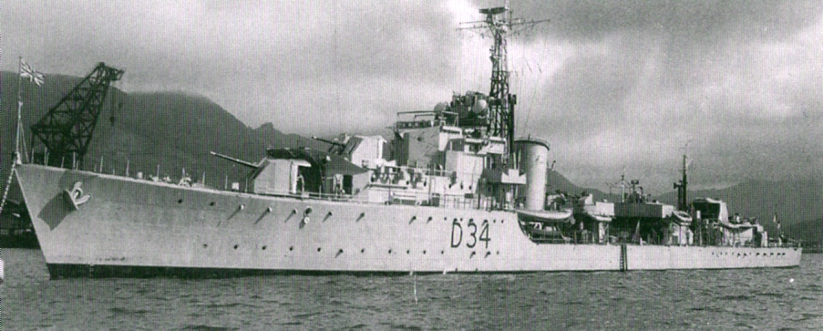 The Royal Navy destroyer HMS Cockade (D34) moored at Sasebo, Japan, in July 1950.